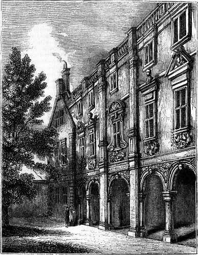 The Pepysian Library, Magdalene College, Cambridge